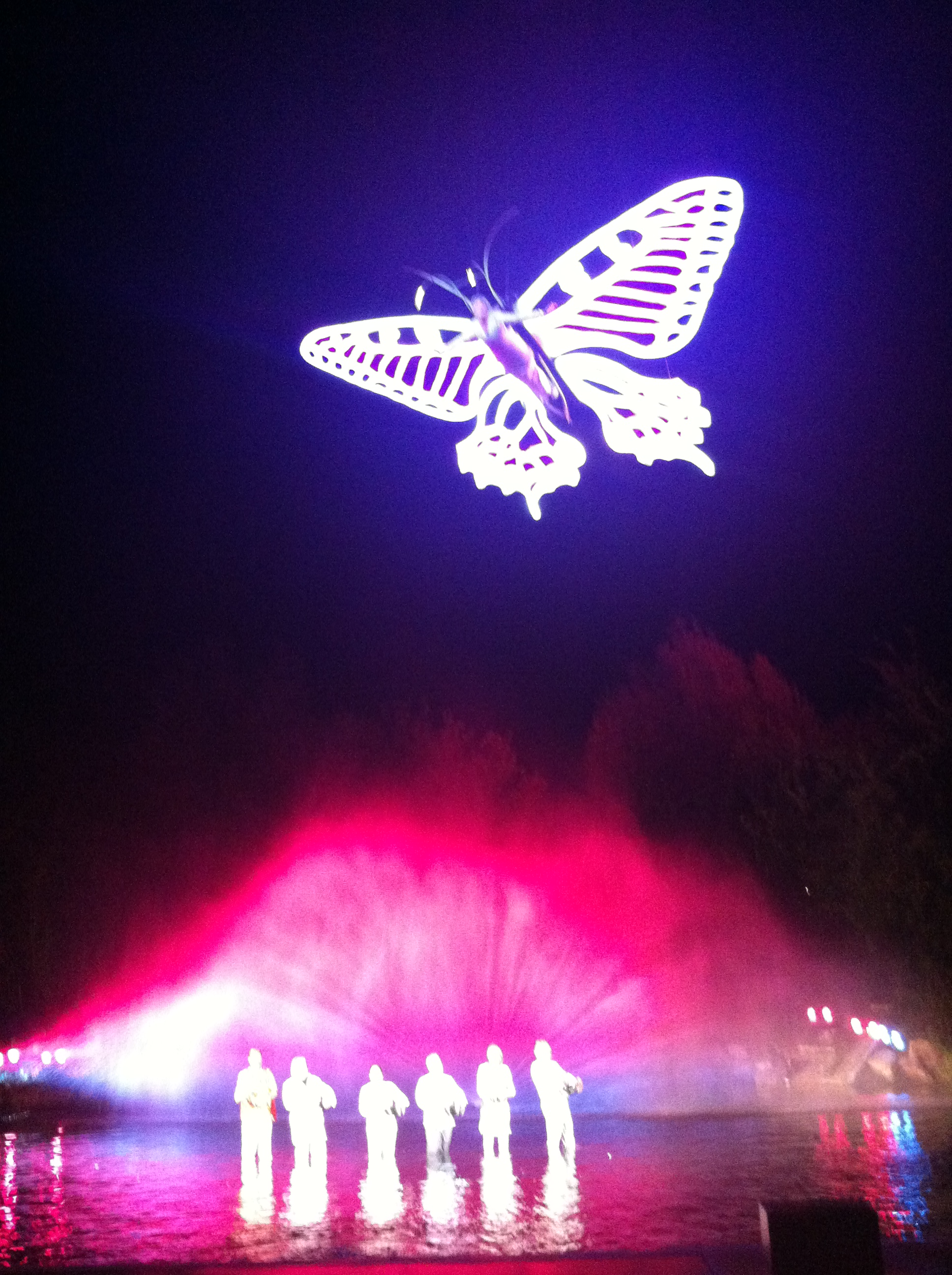 sentimental moment in the often rapid show of Karls Kühne Gassenschau in Switzerland. Raw picture taken with IPhone